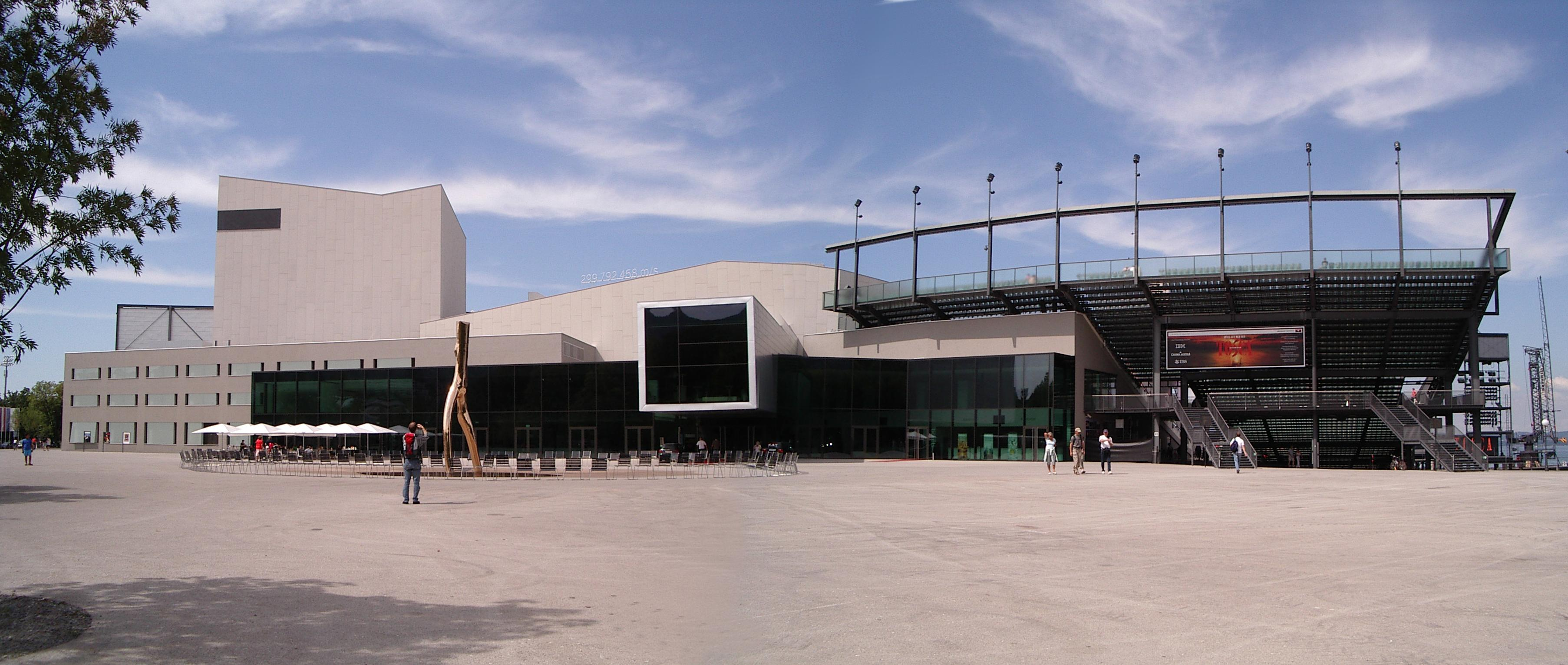 Bregenz Festival Hall with Lake Stage as part of the Bregenz Festival on the Austrian shores of Lake Constance, exterior view